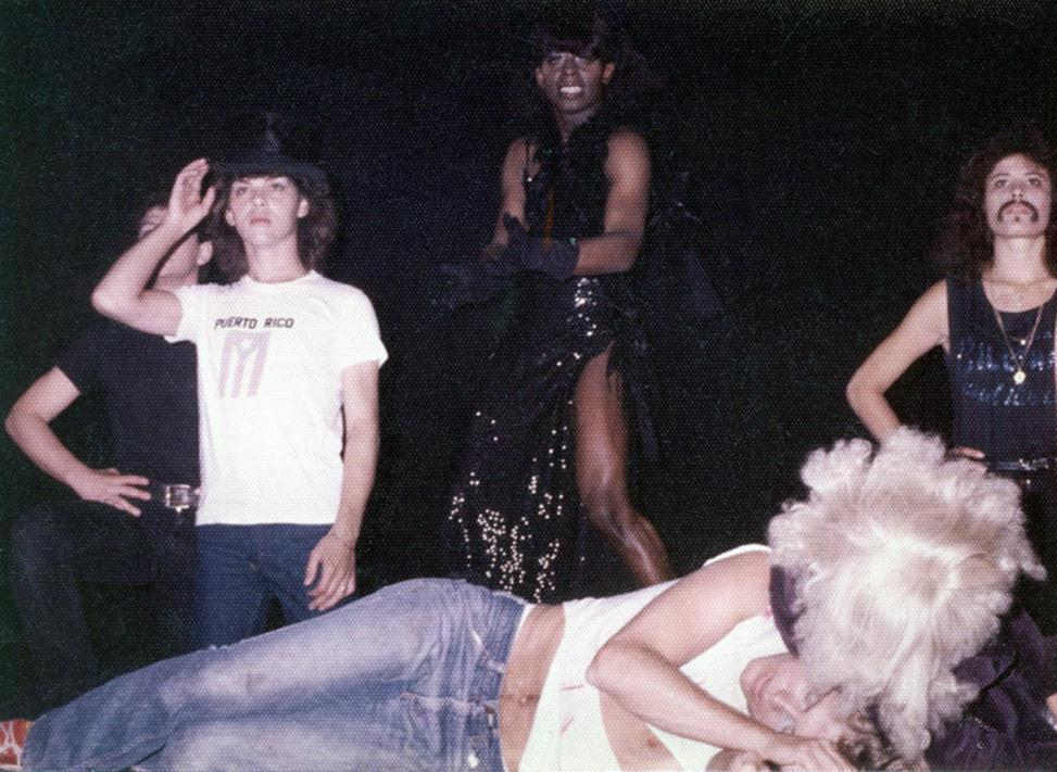 Finale of Wild Side Story (l-r: Juan Iglesias, Eddie Valdez, Eddie Hampton Armani, Philip Cummings, Christine Drakenhall & Lucy Lopez), as released by image creator Lars Jacob ProdPlace: Plaza, 739 N. La Brea Ave., Los Angeles, California